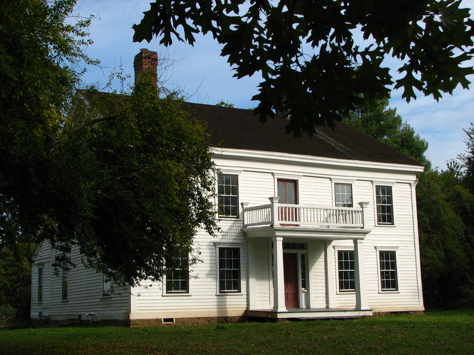 The historic Bybee-Howell House (built 1856), located at 13901 Northwest Howell Park Road on Sauvie Island, Oregon, United States, is listed on the US National Register of Historic Places (NRHP). It is today part of Metro's Howell Territorial Park, operated by the Oregon Historical Society.